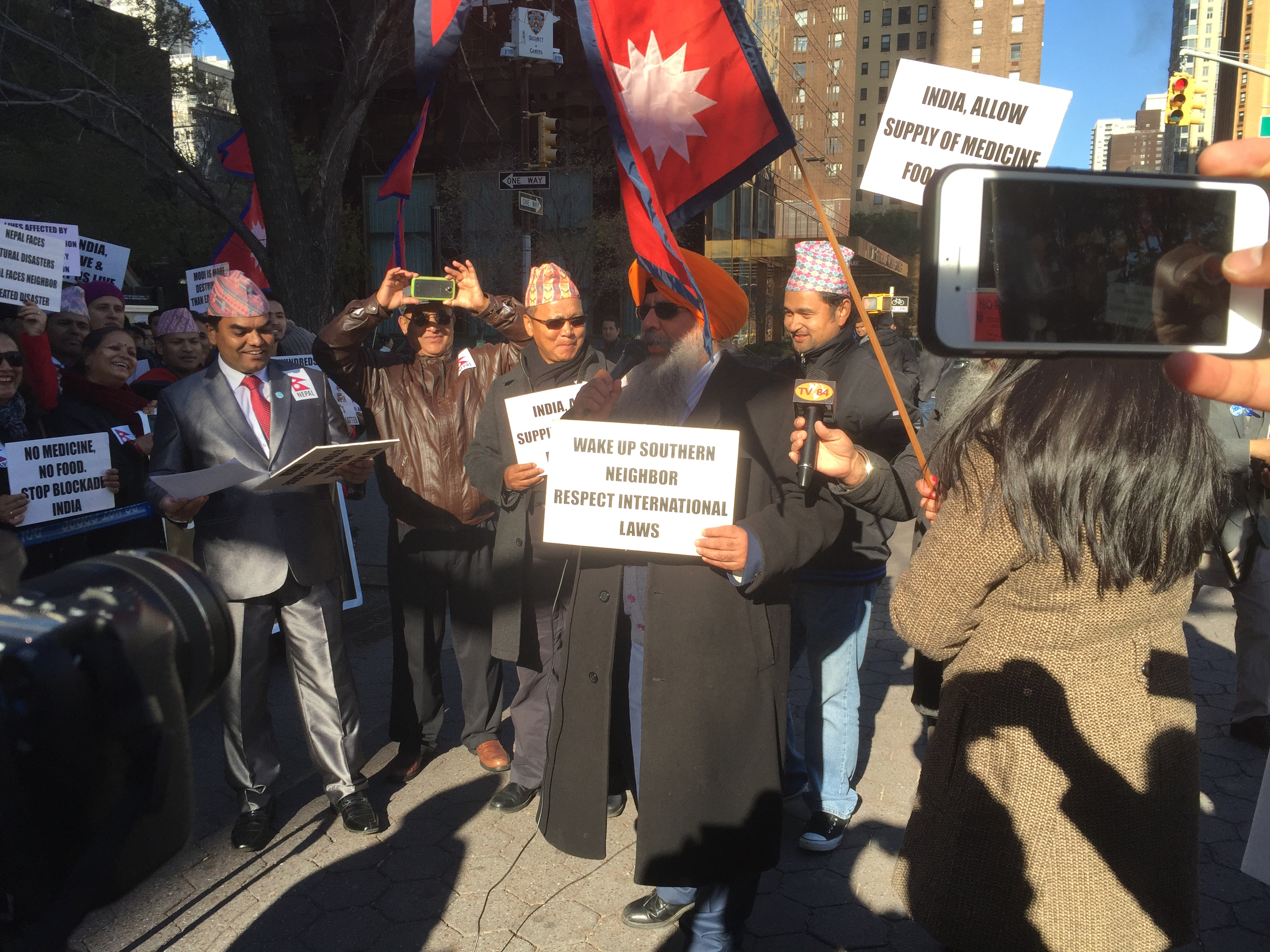 Nepali Community member demonstrate in front UN hq New York against Indian blockade to Nepal